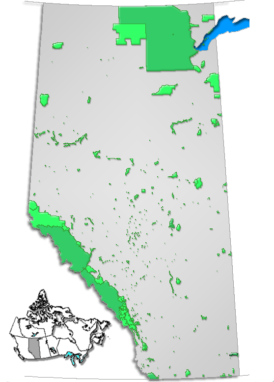 Location of Alberta provicial and national parks